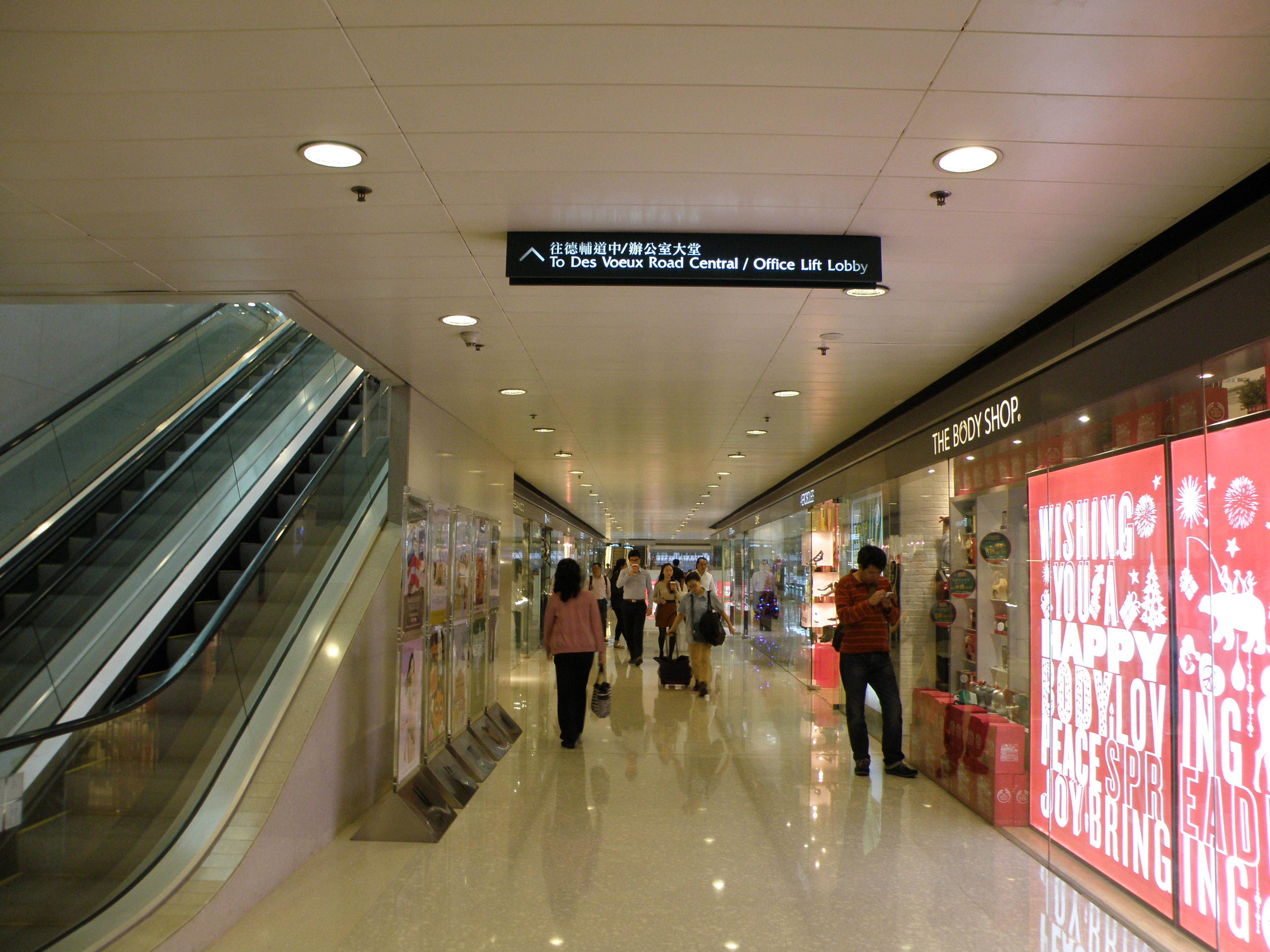 Man Yee Arcade in Central, Hong Kong.